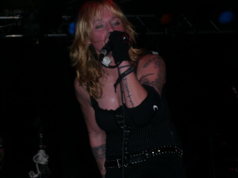 Otep Shamaya. I took this picture!